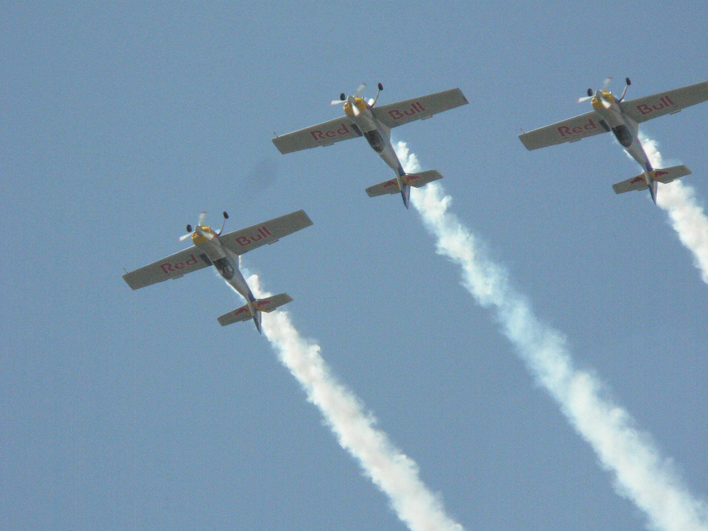 Live on the 20th of August, 2006. Budapest, the Danube embarkemant. Red Bull Air Race 2006. In 2001 Red Bull asked Besenyi Péter, hungarian aviator to work on the concept of an air race